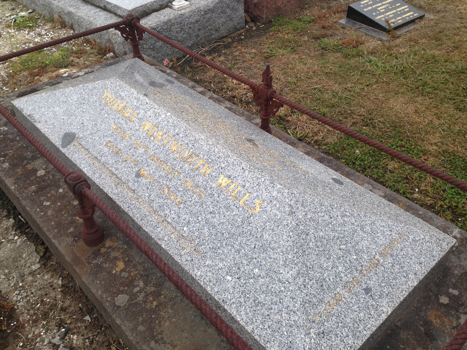 Grave of Tom Wills, founder of Australian rules football.